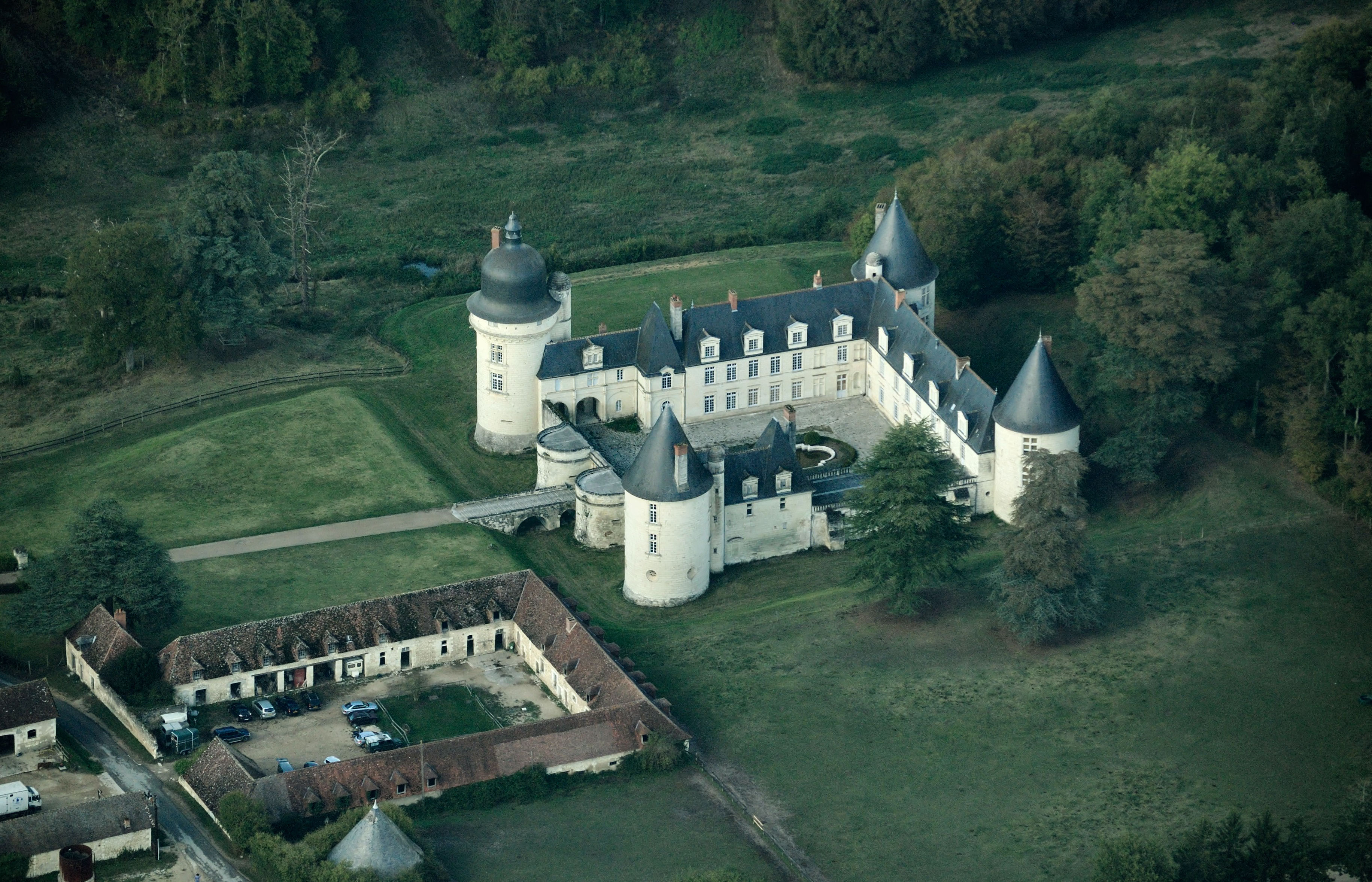 Aerial view of Le Gué-Péan castle (Loir-et-Cher department, France). Nikon D60 f=122mm f/5.6 at 1/500s ISO 400. Processed using Nikon ViewNX 1.3.0 and GIMP 2.6.6.